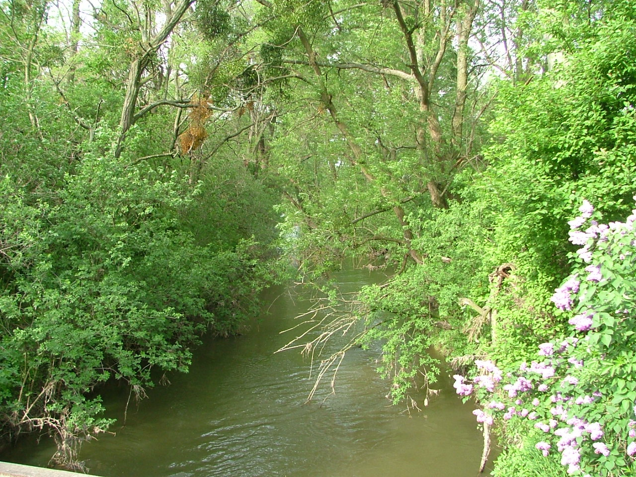 The Répce river south of Chernelházadamonya